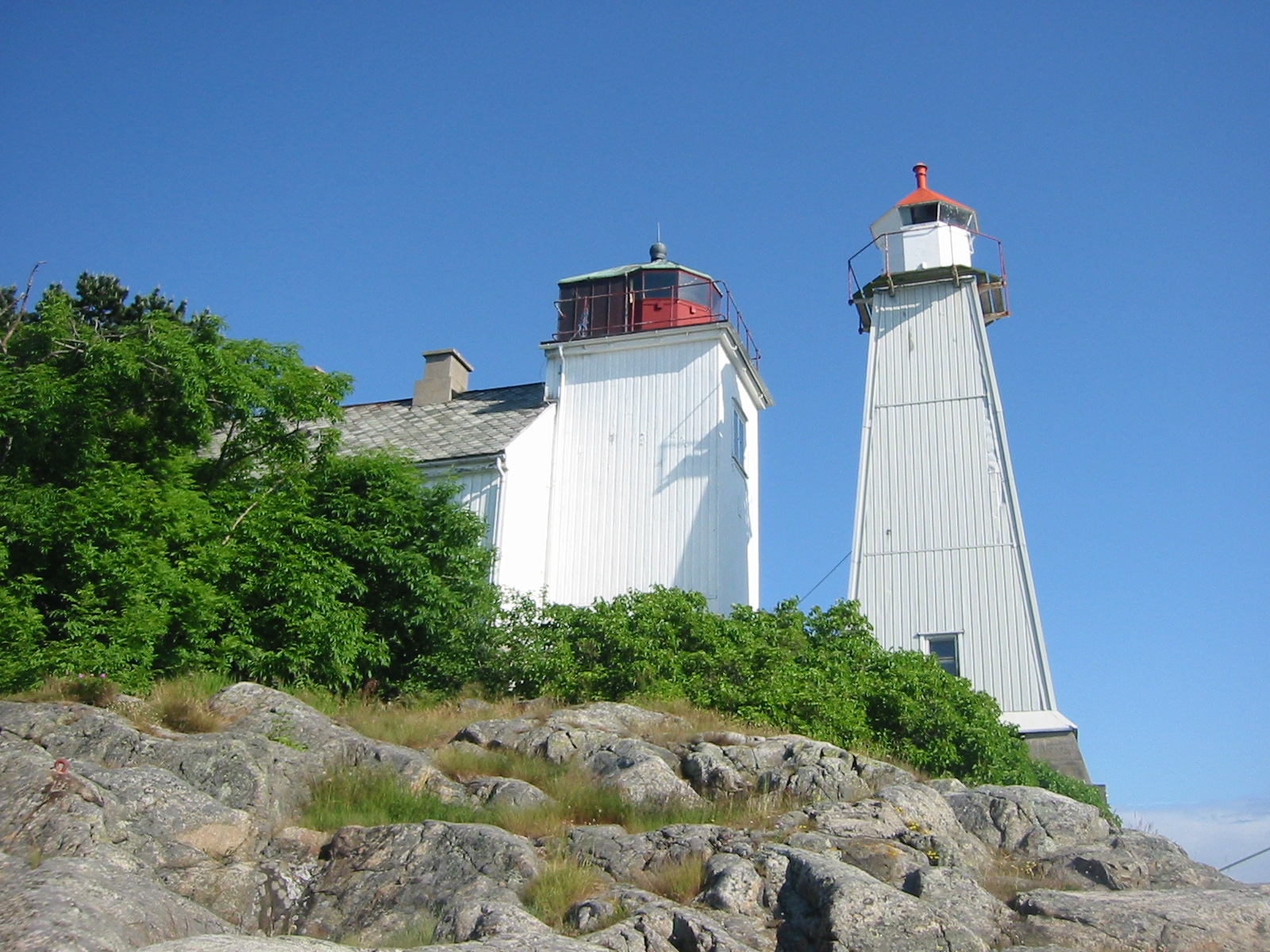 The lighthouse in Sandvigen on the sea entry to Arendal. Sandvigen has the first settlement of this area in the south of Norway.